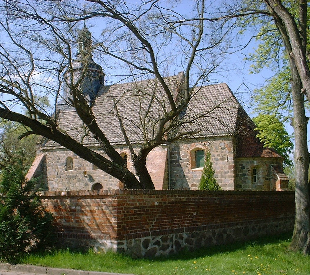 Church in Hohengörsdorf in Brandenburg, Germany